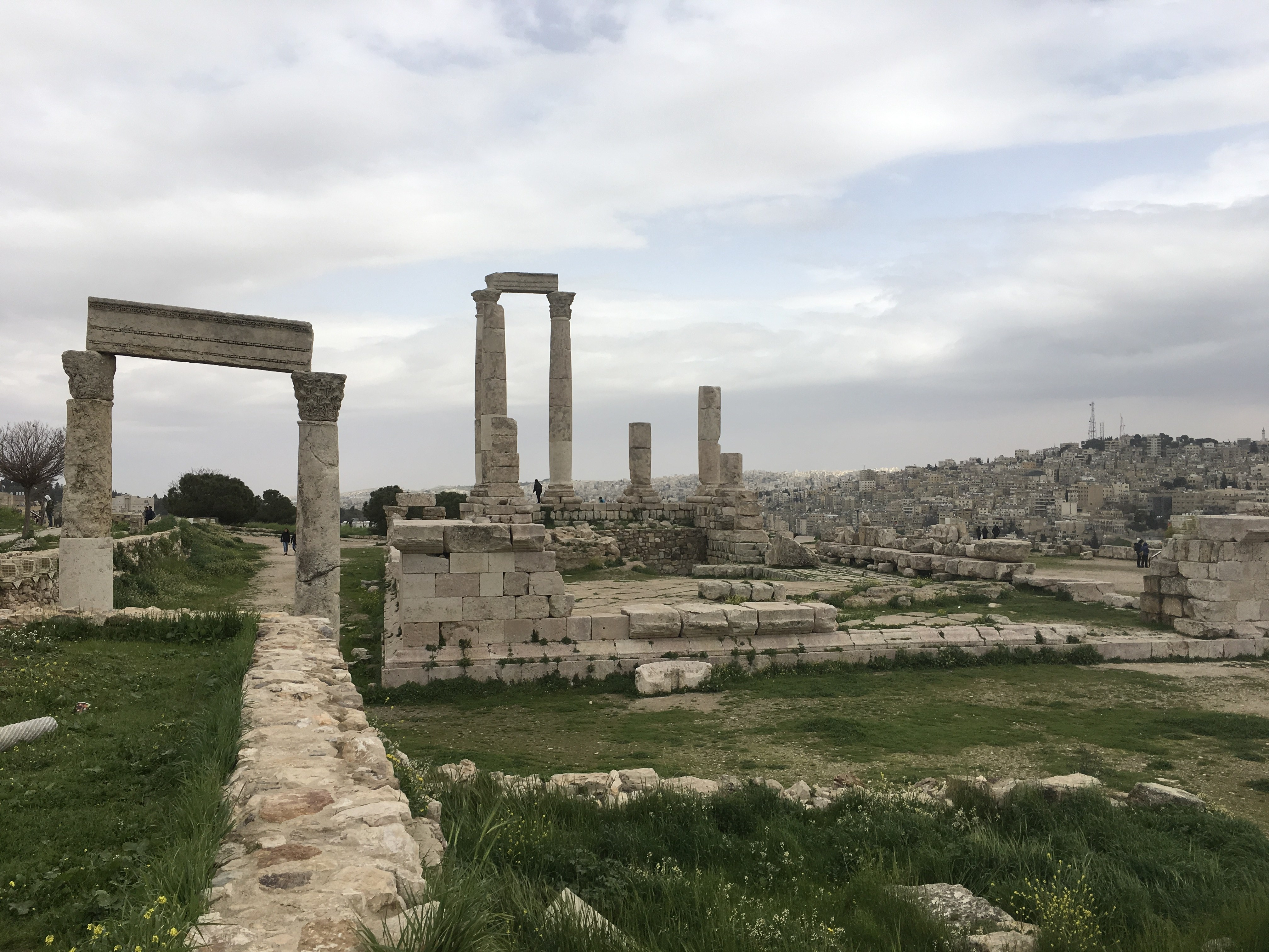 Hercules temple, back view